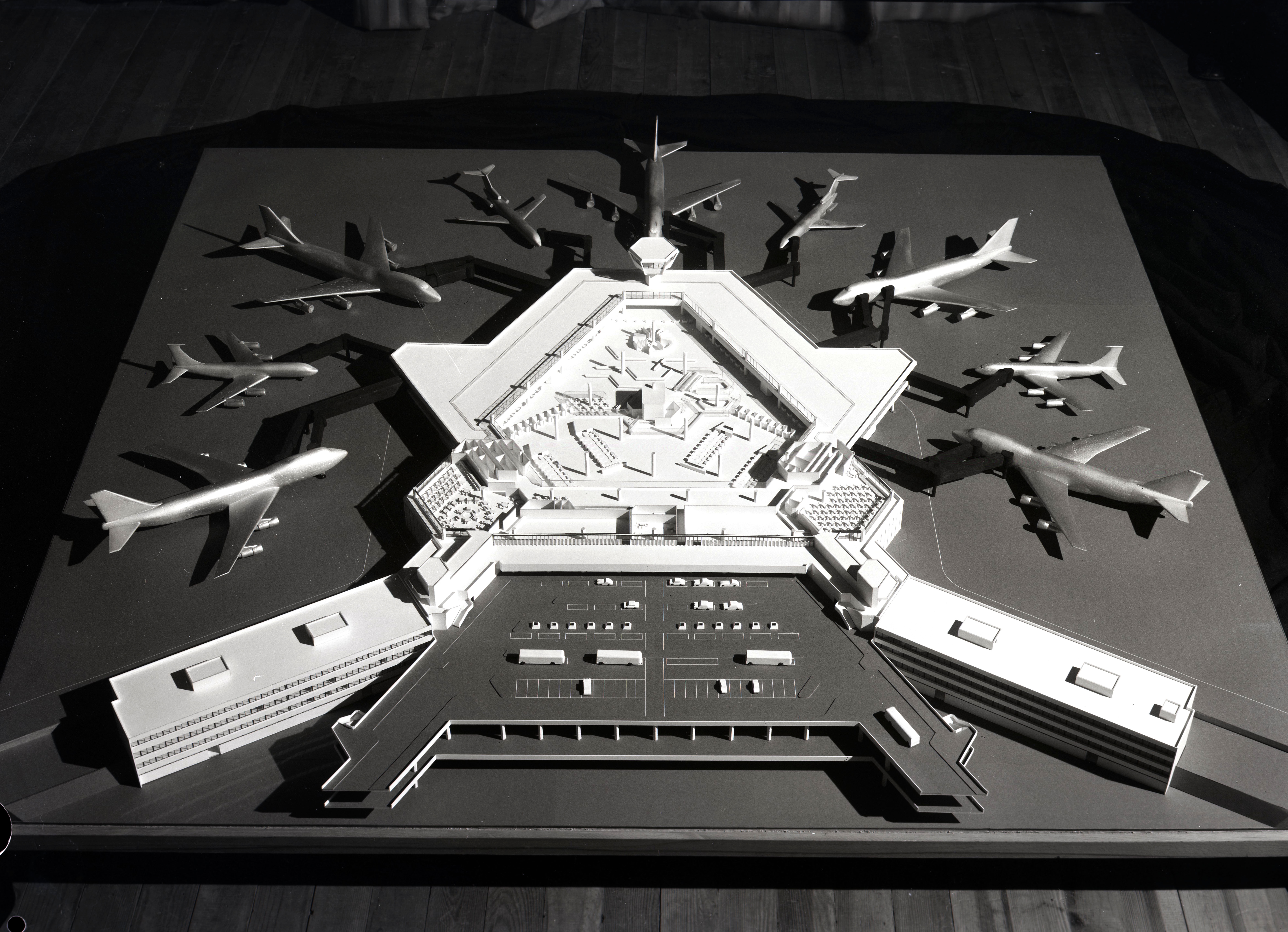 After the Chicago Civil Aviation Agreement was signed in 1944, it become necessary to establish an international airport in İstanbul. A project was prepared in 1947 to improve the Yeşilköy Airport, which despite being used mainly for military activity had managed a limited number of civil flights since 1933. The new facility opened in 1953. As air traffic increased, the airport once again became too limited in its capacity. In 1971 Hayati Tabanlıoğlu designed a masterplan comprising four terminal buildings along with technical facilities and parking lots. The master plan wasn’t fully realized but the new terminal building was opened in 1983. Named İstanbul Atatürk Aiport in 1985, the facility with new additions was reopened in 2000. SALT Research, Hayati Tabanlıoğlu Archive 1944’te Chicago Sivil Havacılık Sözleşmesi’nin imzalanmasıyla İstanbul’da uluslararası bir havaalanı ihtiyacı gündeme geldi. Önce askerî havaalanı olarak kullanılan, 1933’ten sonra da sivil uçuşların gerçekleştirildiği Yeşilköy Havaalanı’nın geliştirilmesi için 1947’de bir proje hazırlandı. Tesis 1953’te hizmete girdi. 1960’larda hava trafiğinin artması sonucu yetersiz kalan havaalanının genişletilmesi amacıyla 1971’de mimar Hayati Tabanlıoğlu bir masterplan hazırladı. Dört yeni terminal dışında teknik binalar, tesisler ve otoparkları kapsayan bu proje tam olarak hayata geçirilmedi ama inşa edilen yeni terminal binası 1983’te açıldı. 1985’te İstanbul Atatürk Havalimanı adını alan tesis, yeni eklemelerle 2000’de yeniden hizmete girdi. SALT Araştırma, Hayati Tabanlıoğlu Arşivi